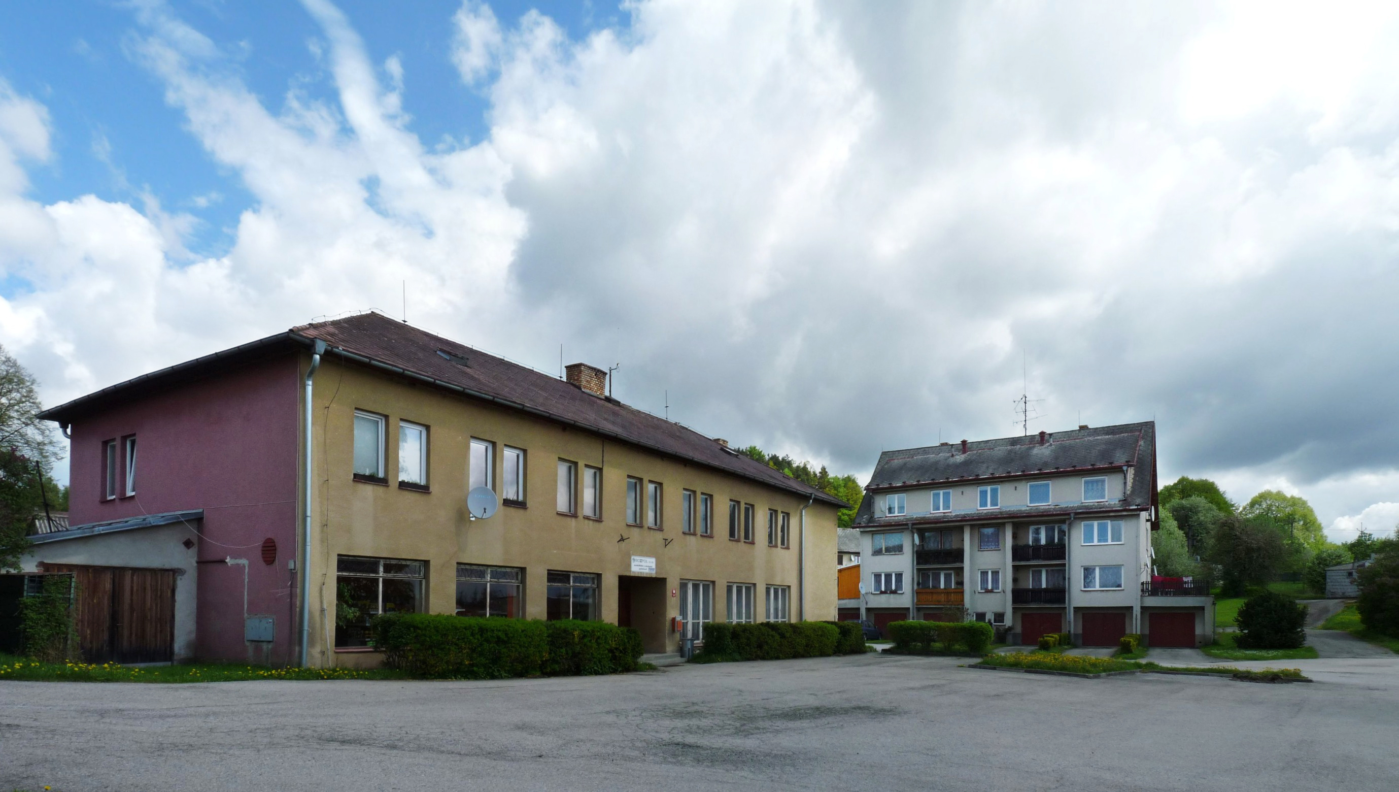 Houses in the centre of the municipality of Bohdalovice, Český Krumlov District, South Bohemian Region, Czech Republic.